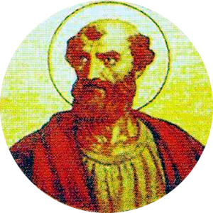 Portrait of Pope Alexander I in the Basilica of Saint Paul Outside the Walls, Rome